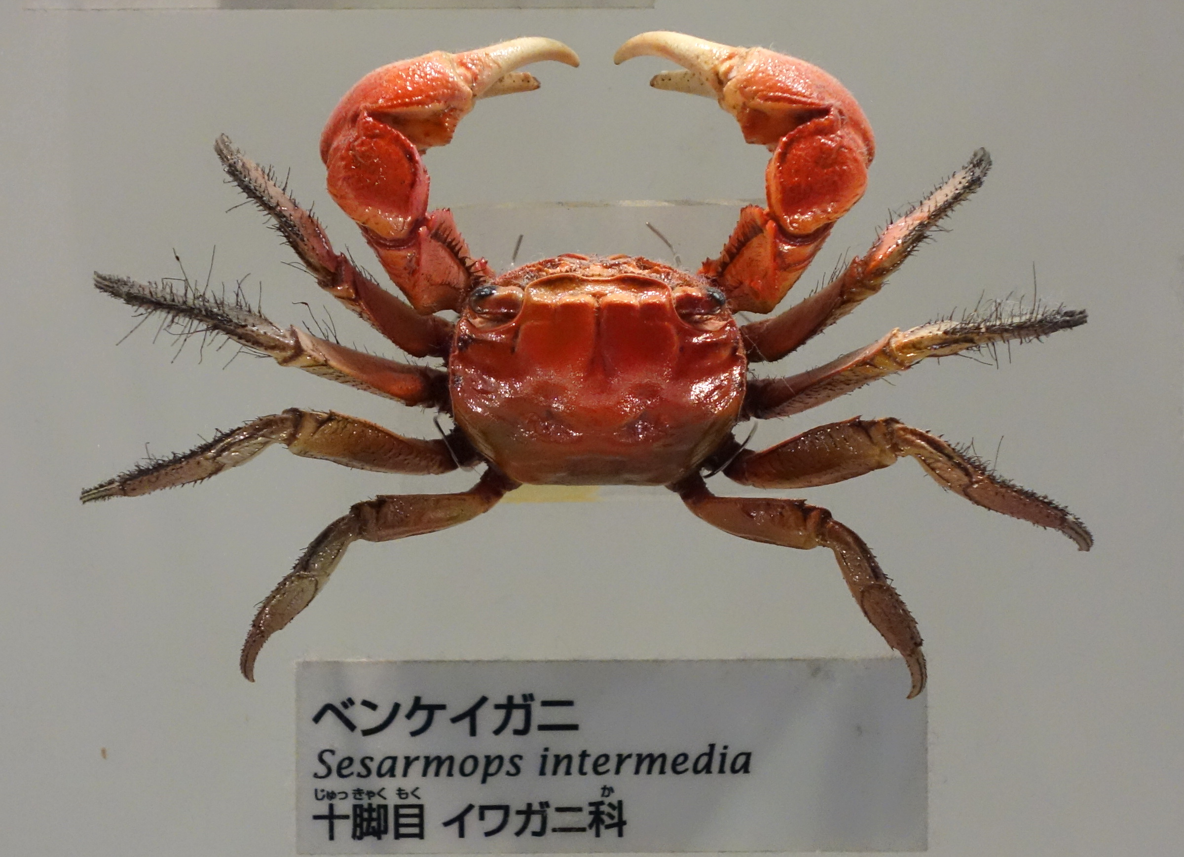 Exhibit in the National Museum of Nature and Science, Tokyo, Japan.